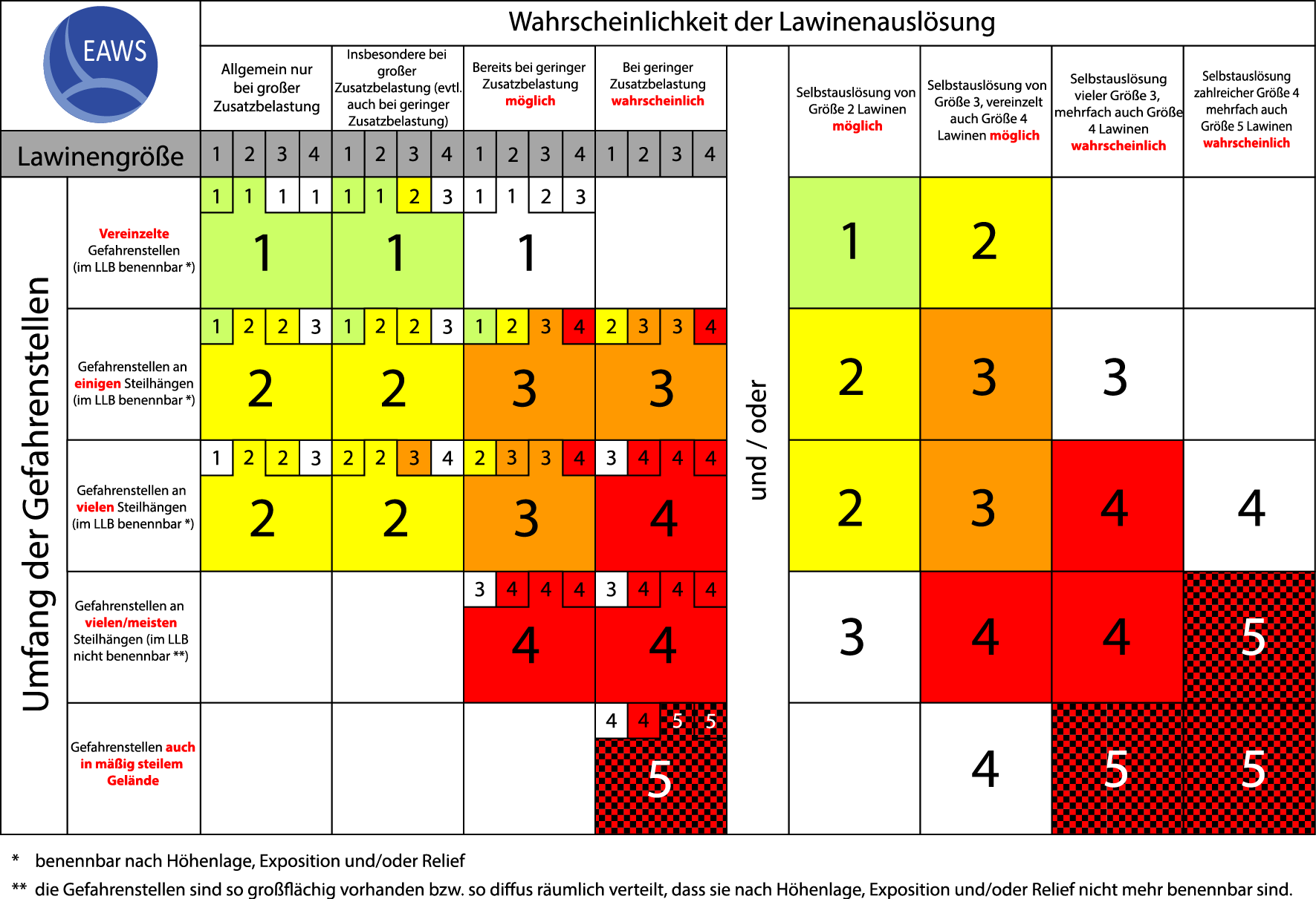 An instrument to define the danger of avalanches by analysing the probability of avalanche releases and the extent of hazardous hotspots